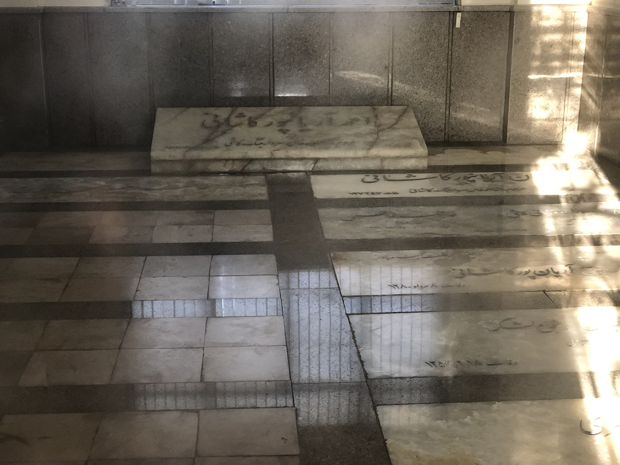 Beheshte Zahra Cemetery